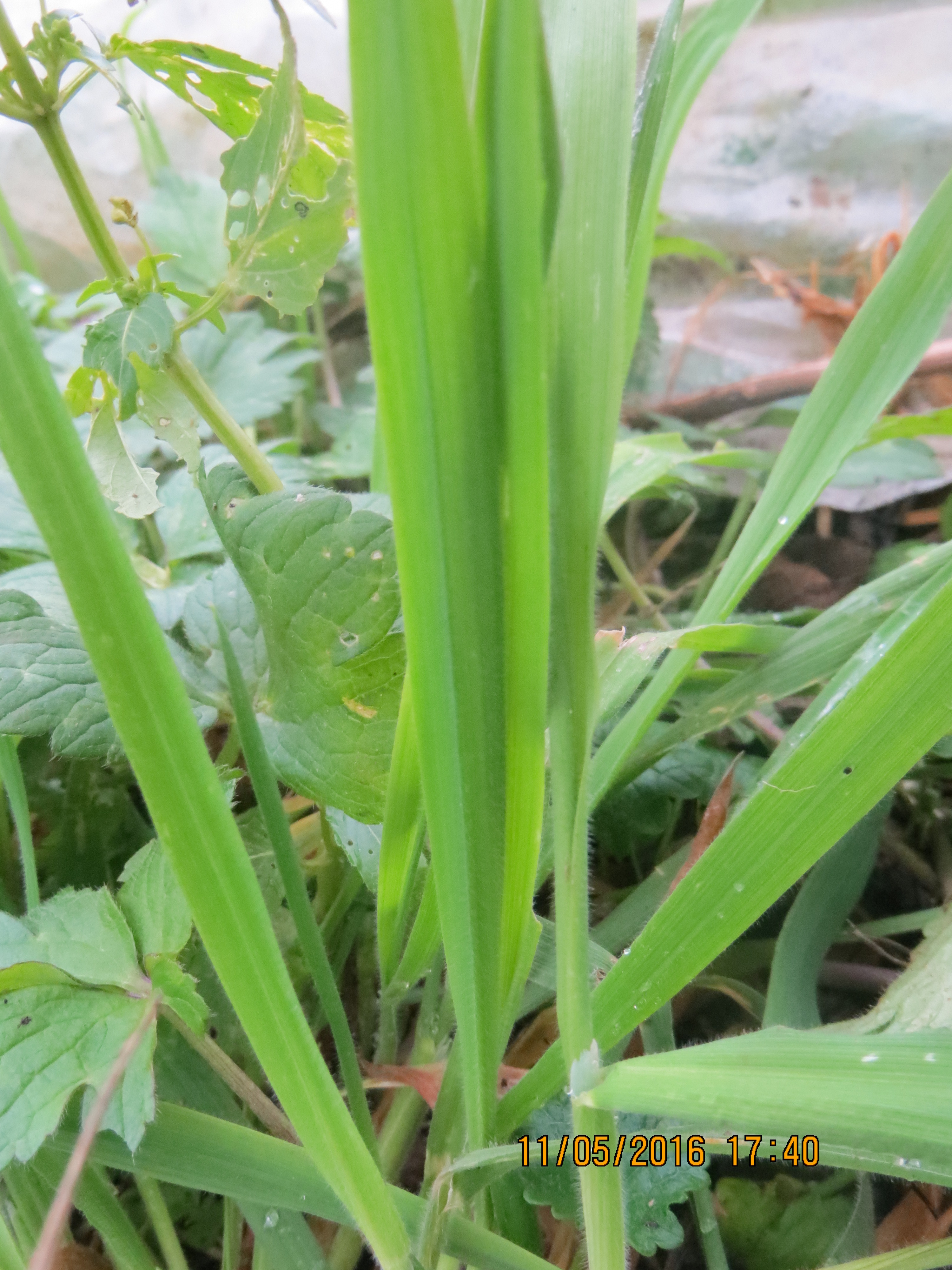 Elymus caninus?